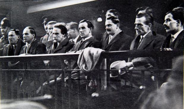 Glasgow Riot trial at the High Court in Edinburgh, 1919, from left: Emmanuel Shinwell, William Gallacher, George Ebury, David Brennan, David Kirkwood, Harry Hopkins and James Murray.